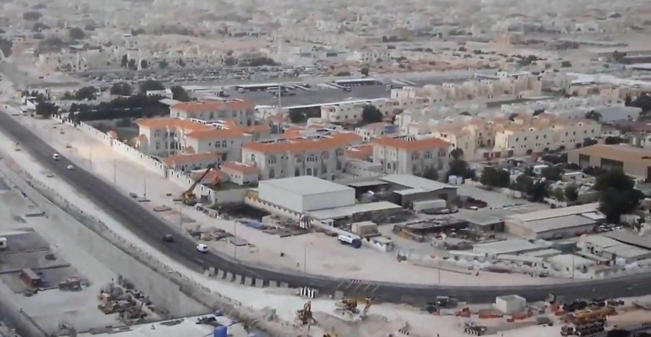 Aerial view of Al Thumama (Zone 47) with Airport Street in the forefront in Doha, Qatar.